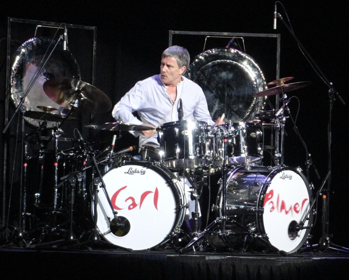 Carl Palmer from "Emerson, Lake,and Palmer" and "ASIA" on drums with a concert reunion of ASIA. Performed at the Wilbur Theater in Boston, Mass. USA on Oct. 18, 2012.